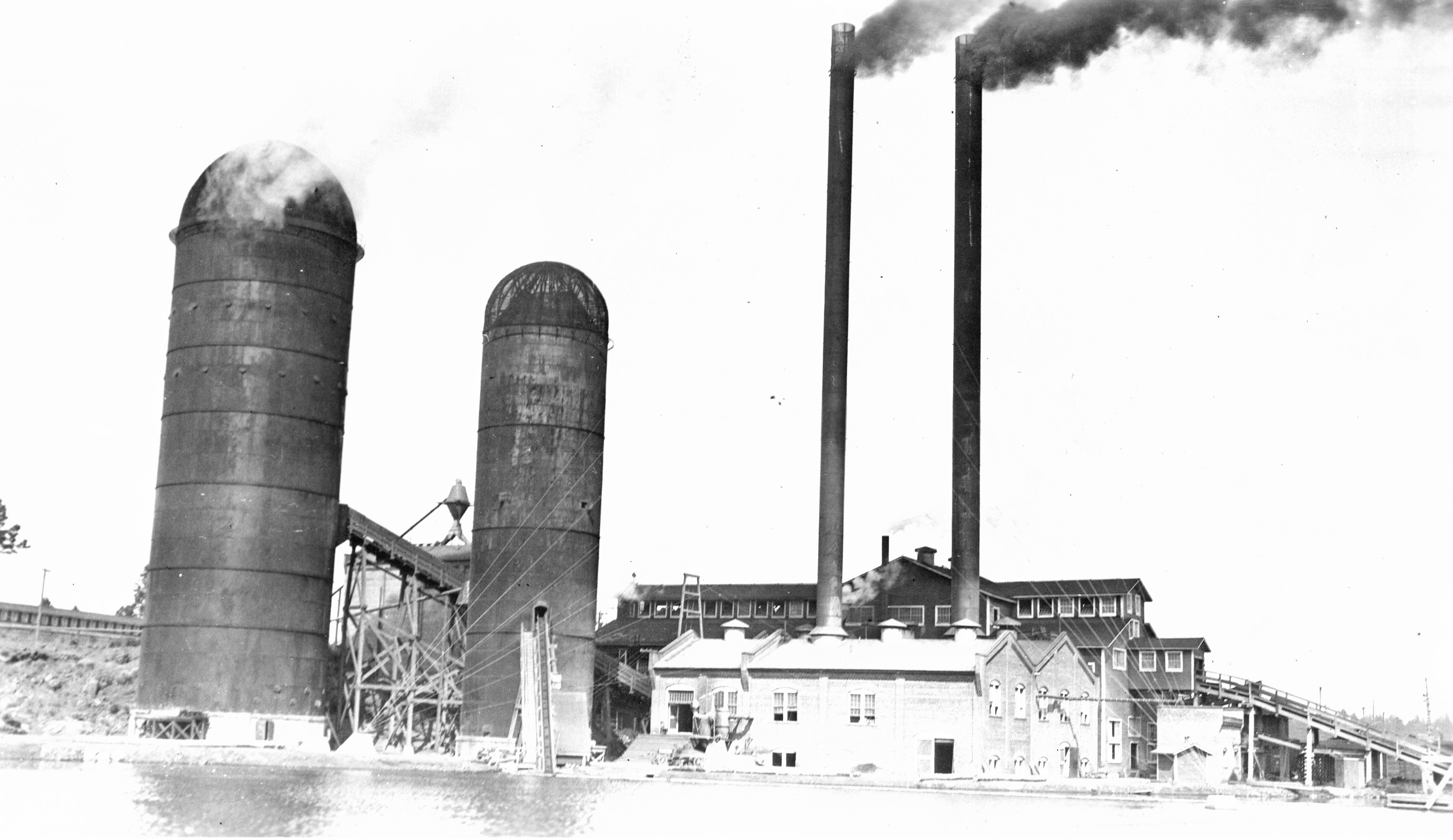 Original Collection: Harold Frodsham Photographic Collection Collection series: Deschutes Basin Explorer Item Number: P271:016 You can find this image by searching for the item number by clicking here. Want more? You can find more digital resources online. We're happy for you to share this digital image within the spirit of The Commons; however, certain restrictions on high quality reproductions of the original physical version may apply. To read more about what “no known restrictions” means, please visit the Special Collections & Archives website, or contact staff at the OSU Special Collections & Archives Research Center for details.